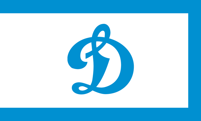 Flag «Dynamo» Club Флаг общества «Динамо»